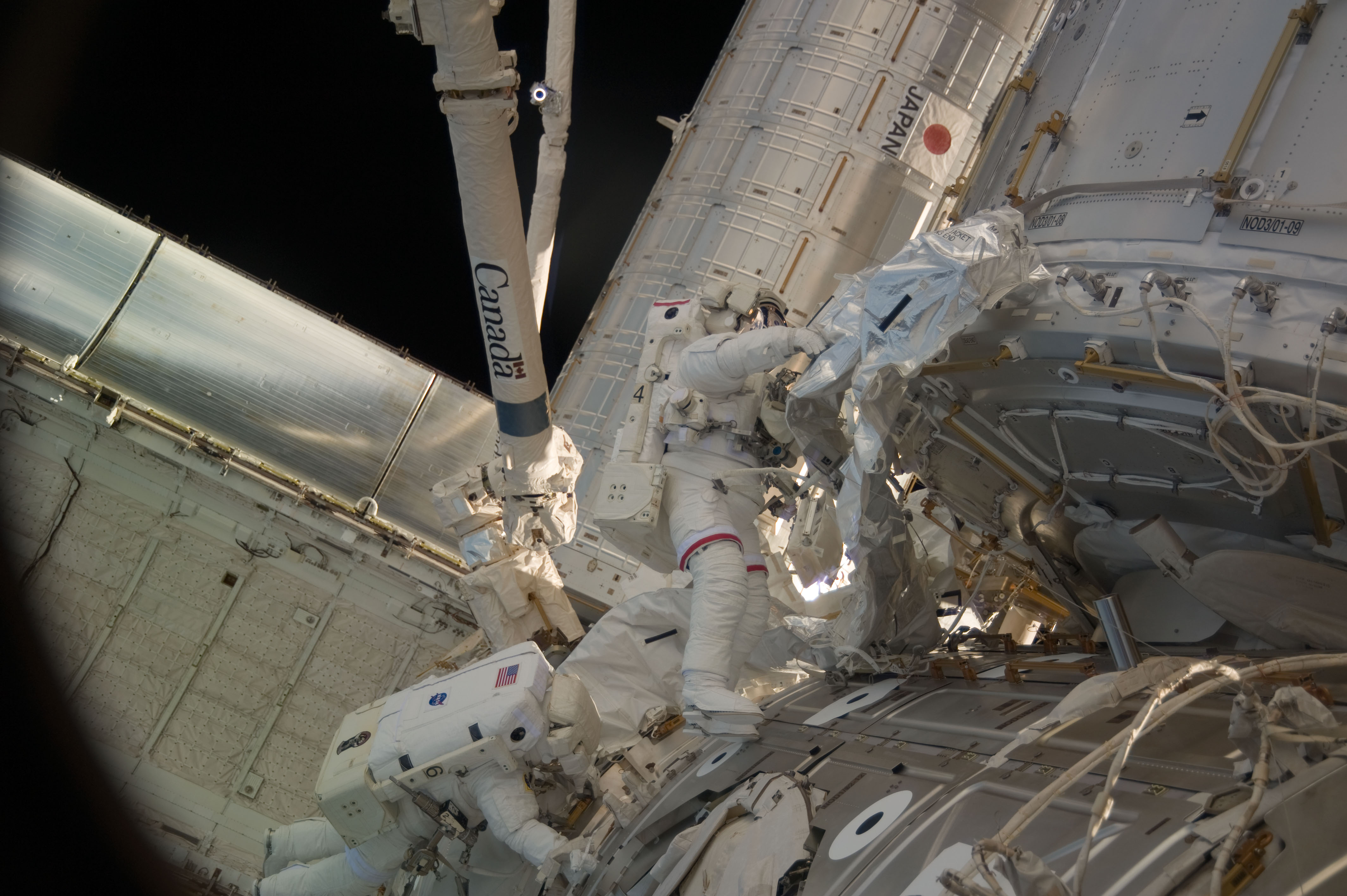 NASA astronauts Robert Behnken (right) and Nicholas Patrick, both STS-130 mission specialists, participate in the mission's second session of extravehicular activity (EVA) as construction and maintenance continue on the International Space Station. During the five-hour, 54-minute spacewalk, Behnken and Patrick connected two ammonia coolant loops, installed thermal covers around the ammonia hoses, outfitted the Earth-facing port on the Tranquility node for the relocation of its Cupola, and installed handrails and a vent valve on the new module.